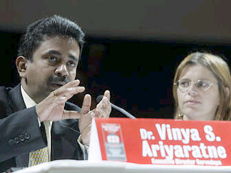 Dr. Vinya S. Ariyaratne, the Executive Director of The Sarvodaya Shramadana Movement. Photo taken in Vienna, Austria.